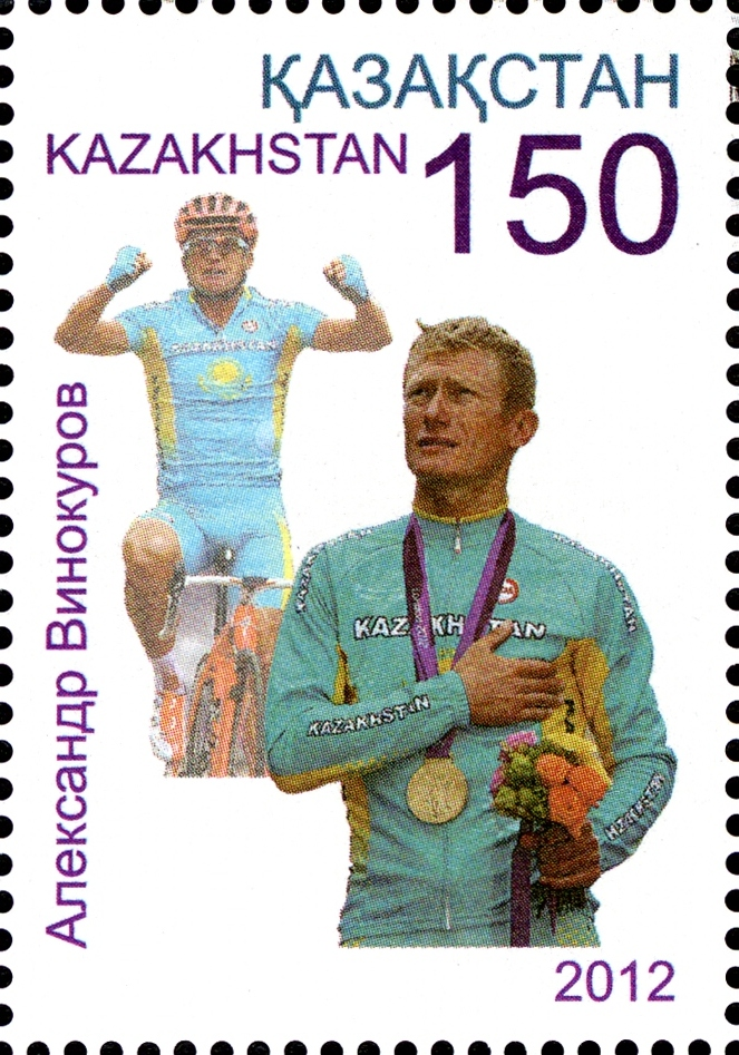 Stamps of Kazakhstan, 2013